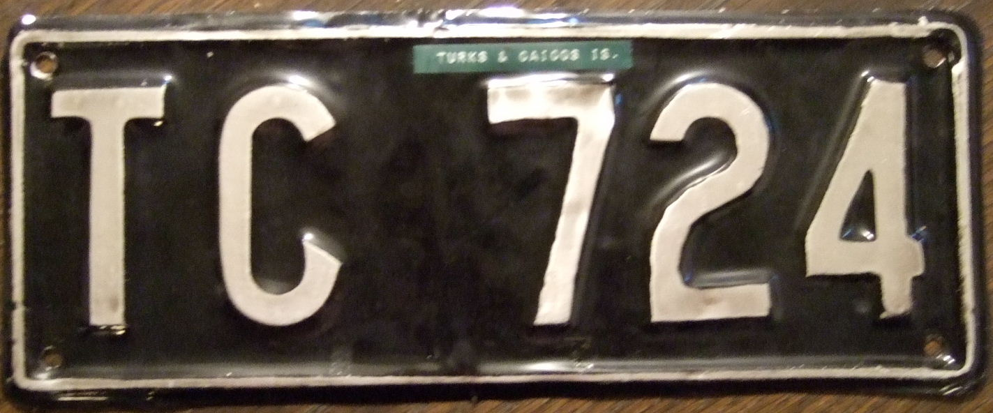 A Turks & Caicos Islands plate from the early 1970's. Natural aluminum on silver.